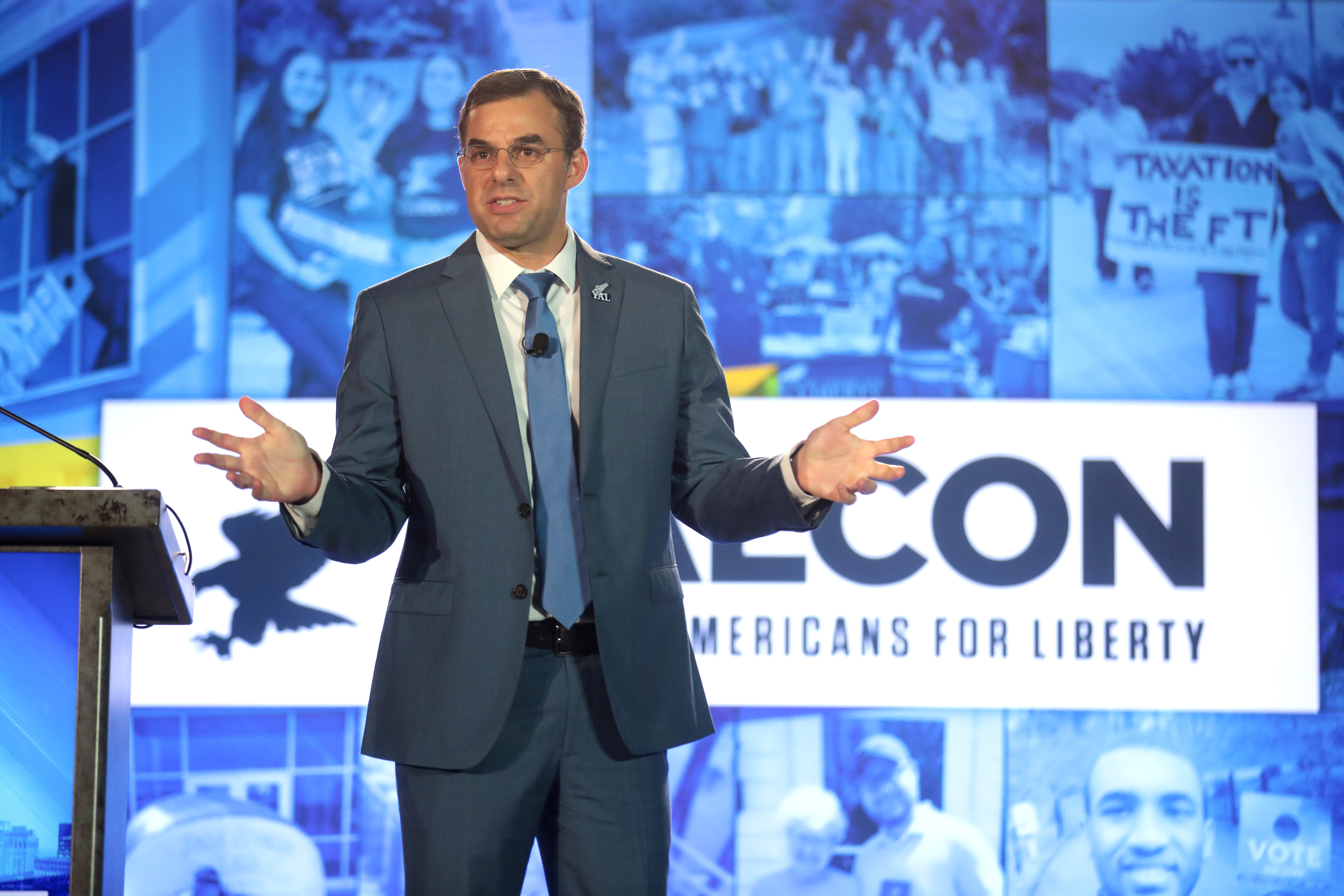 U.S. Congressman Justin Amash speaking with attendees at the 2019 Young Americans for Liberty Convention at the Best Western Premier Detroit Southfield Hotel in Detroit, Michigan.